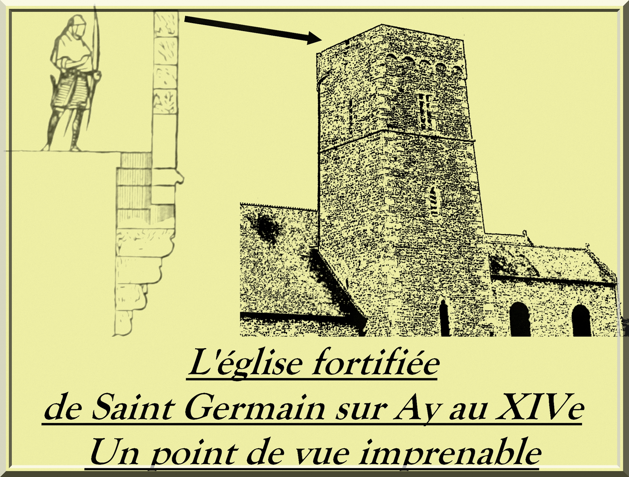 Tower of the church Saint Germain sur Ay at the middle of the XIVe